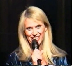 Anneka Rice during the recording of Challenge Anneka at the Royal Albert Hall, London on 28 April 1995: capture from Video camera footage taken by myself